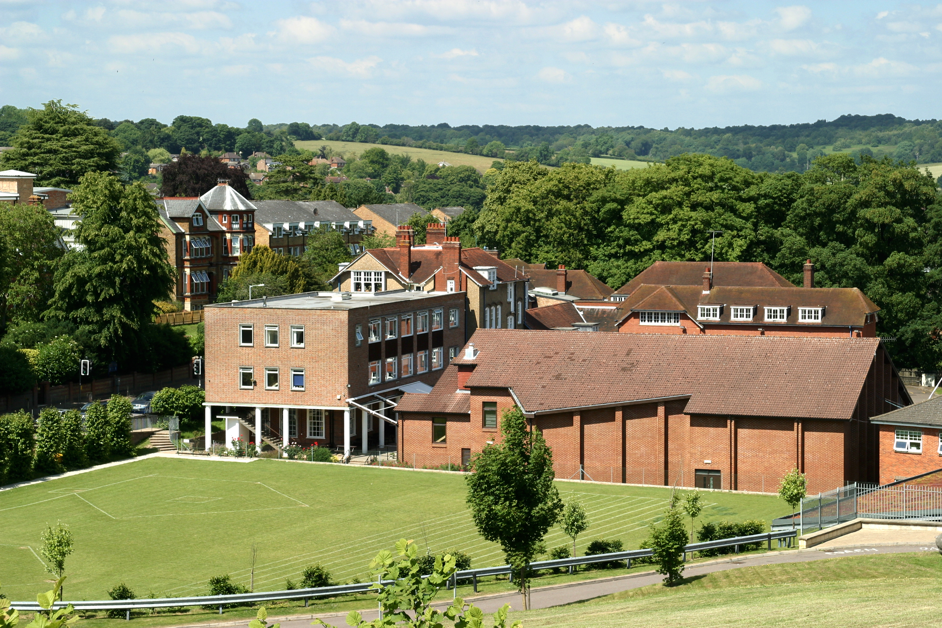 Berkhamsted School Kings Campus (formerly Berkhamsted School for Girls). Photographed for Wikipedia by Pointillist and contributed under the cc-by-sa 3.0 license.